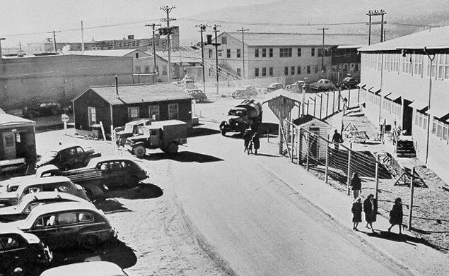 Los Alamos Tech Area